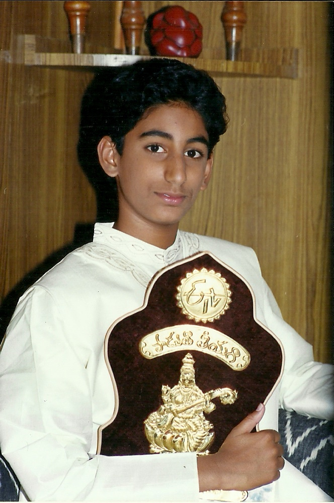 Karunya holding his trophy at home